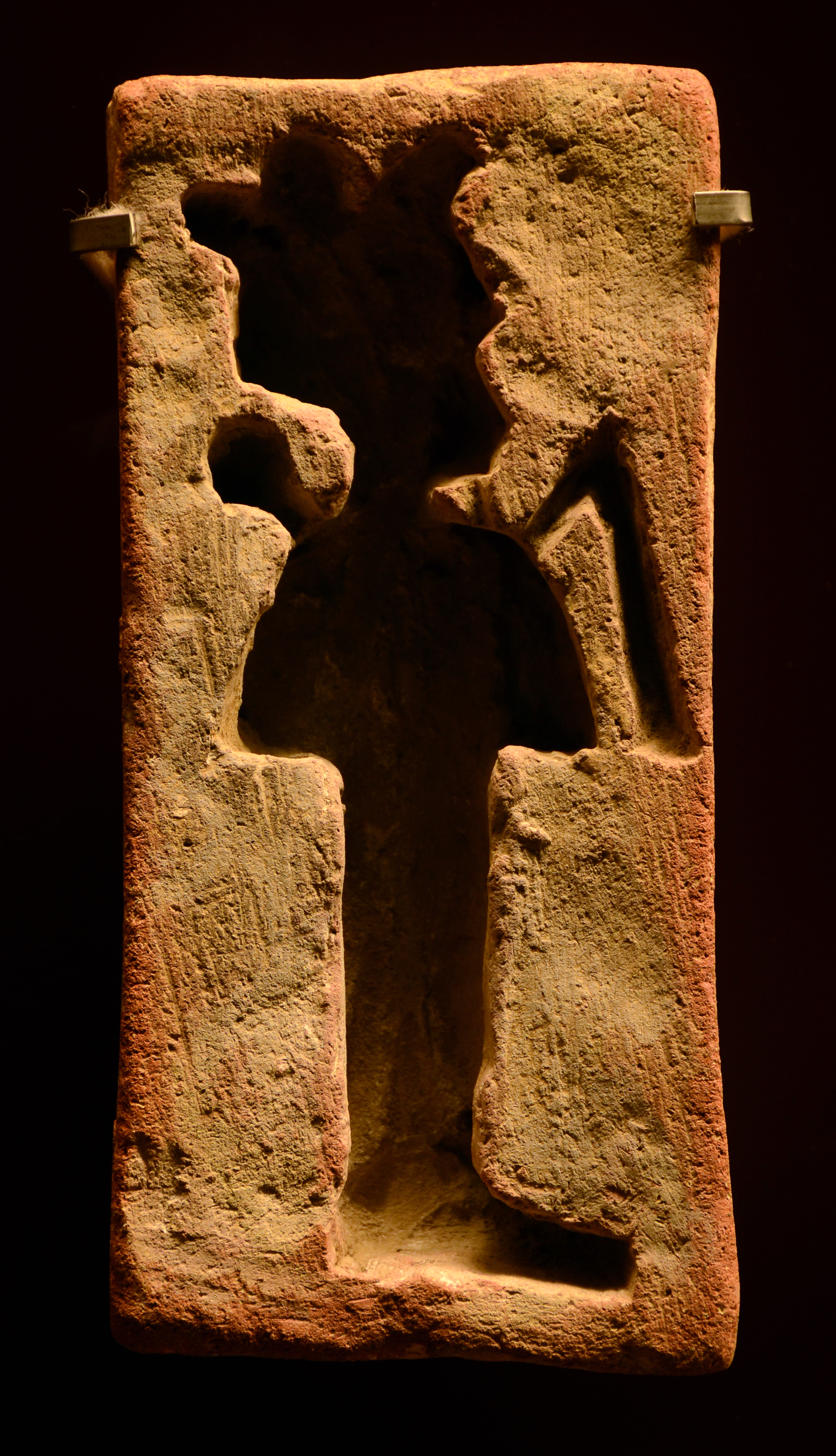 Osiris bed, 450 - 300 BC, from Upper Egypt ( Gabbanat el-Gouroud ), clay. Musée des Confluences.